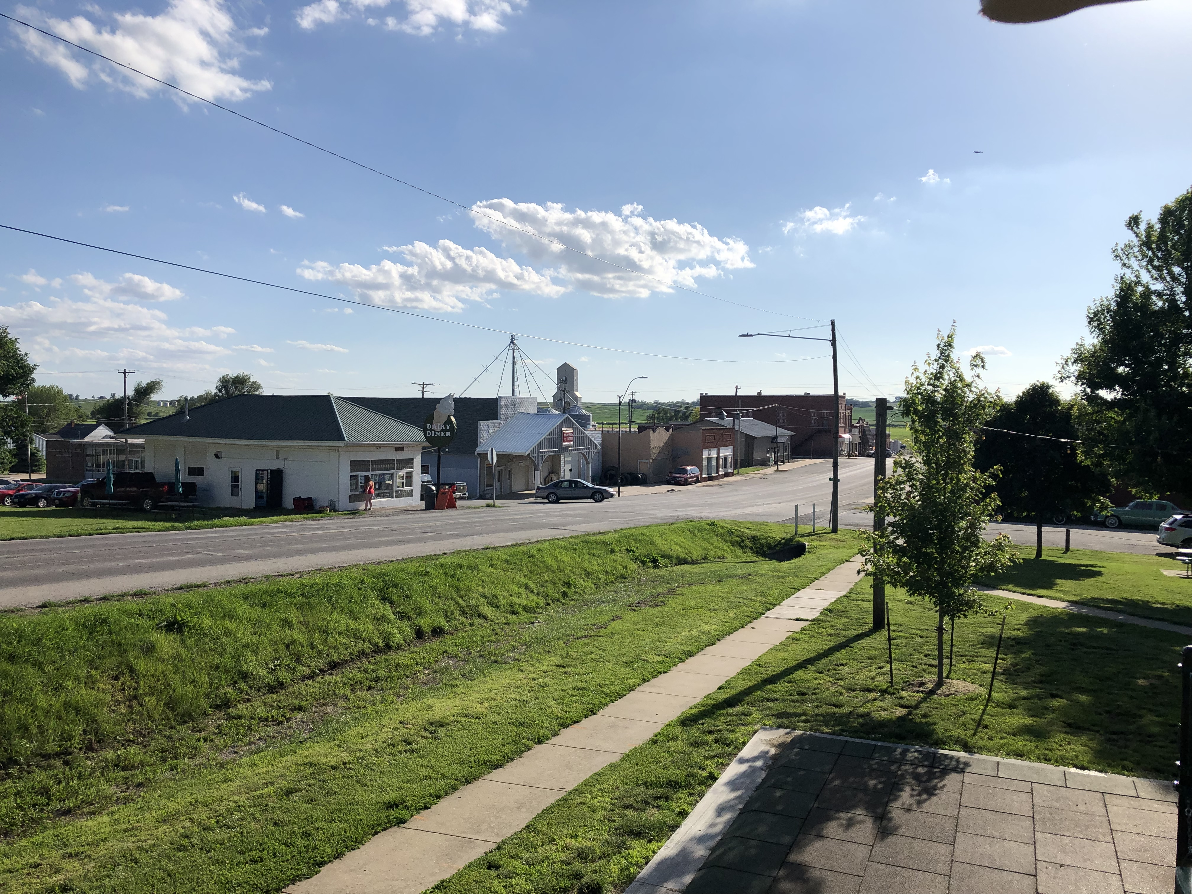 Downtown Fairfax, Missouri in June 4th 2019.